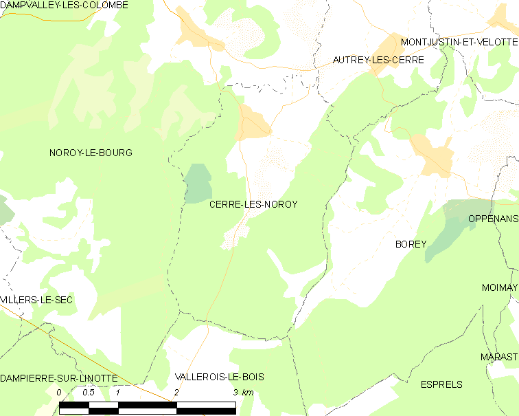 Map of French municipality